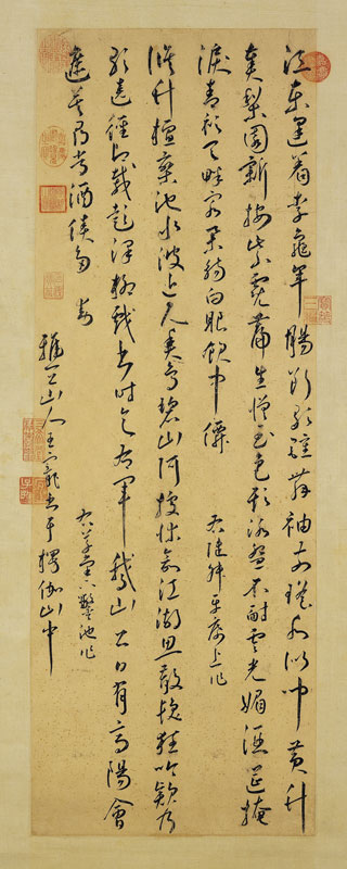 This depicts two seven-character regulated poems in cursive script.